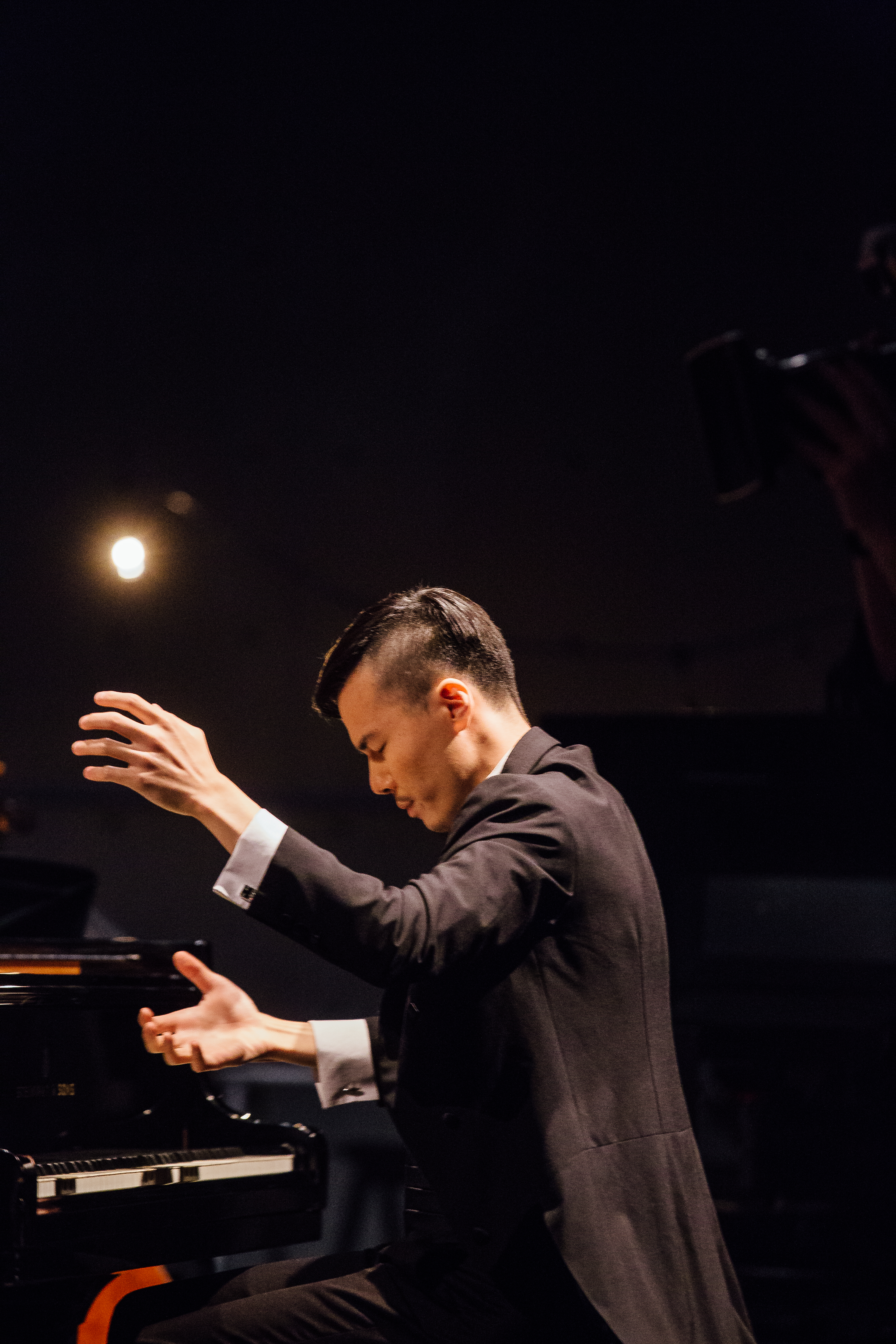 Ivan Linn conducts the Boston Chamber Orchestra for his score.